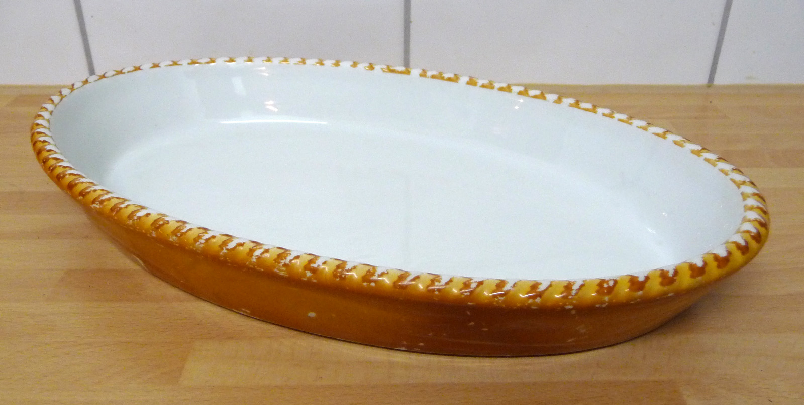 Casserole, which is common in Germany ("Kokotte") and France "Cocotte")